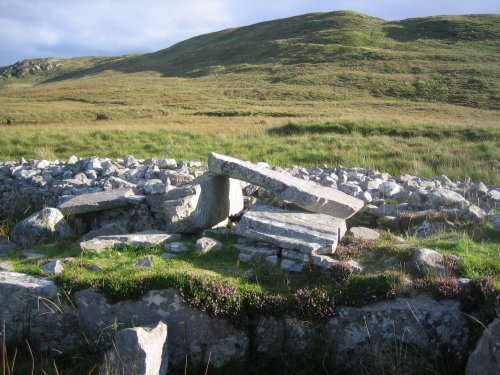 View from south side of west galleries, Cloghanmore court tomb, Donegal, Ireland.